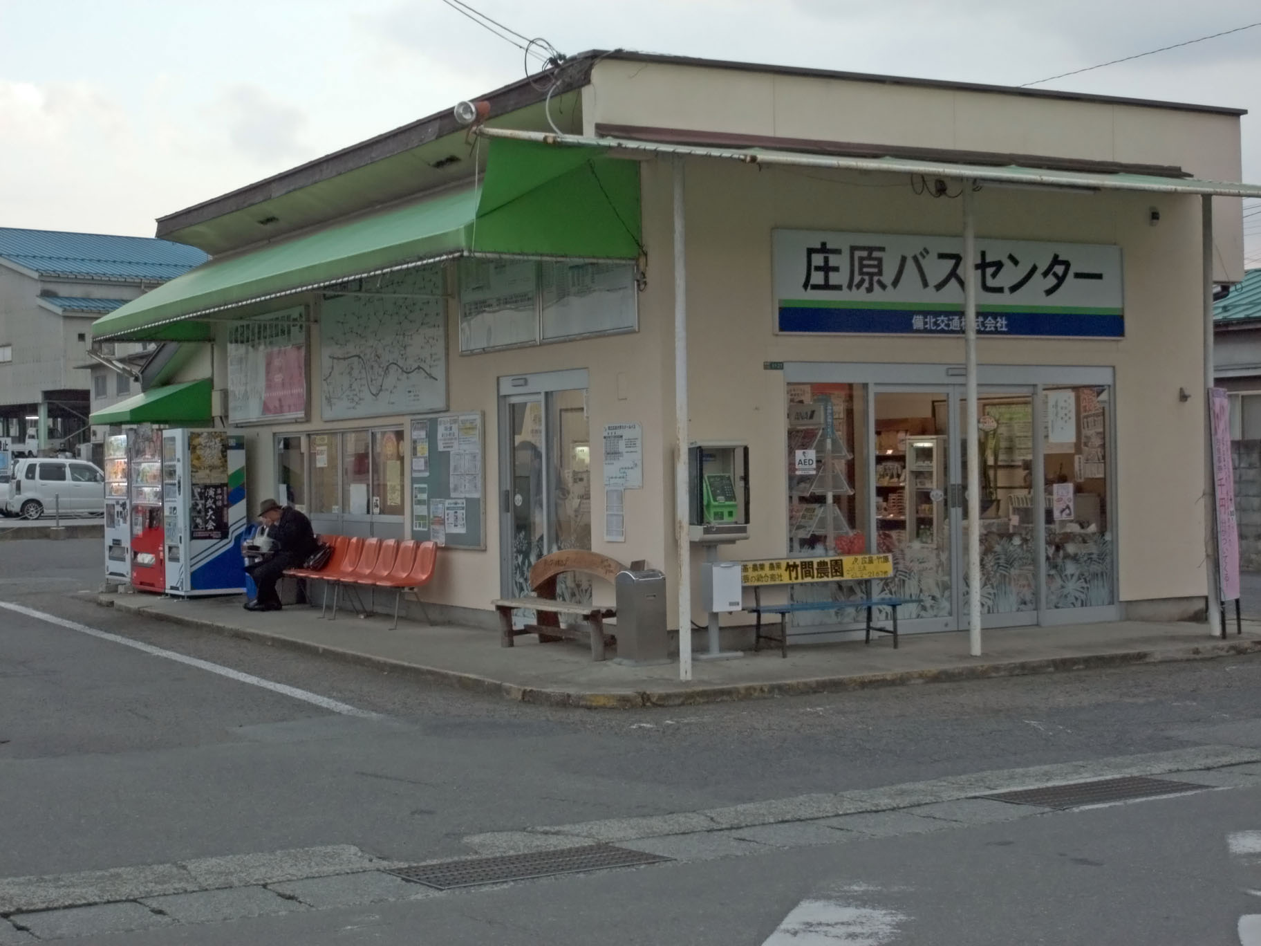 Shobara bus center, Shobara, Hiroshima, Japan